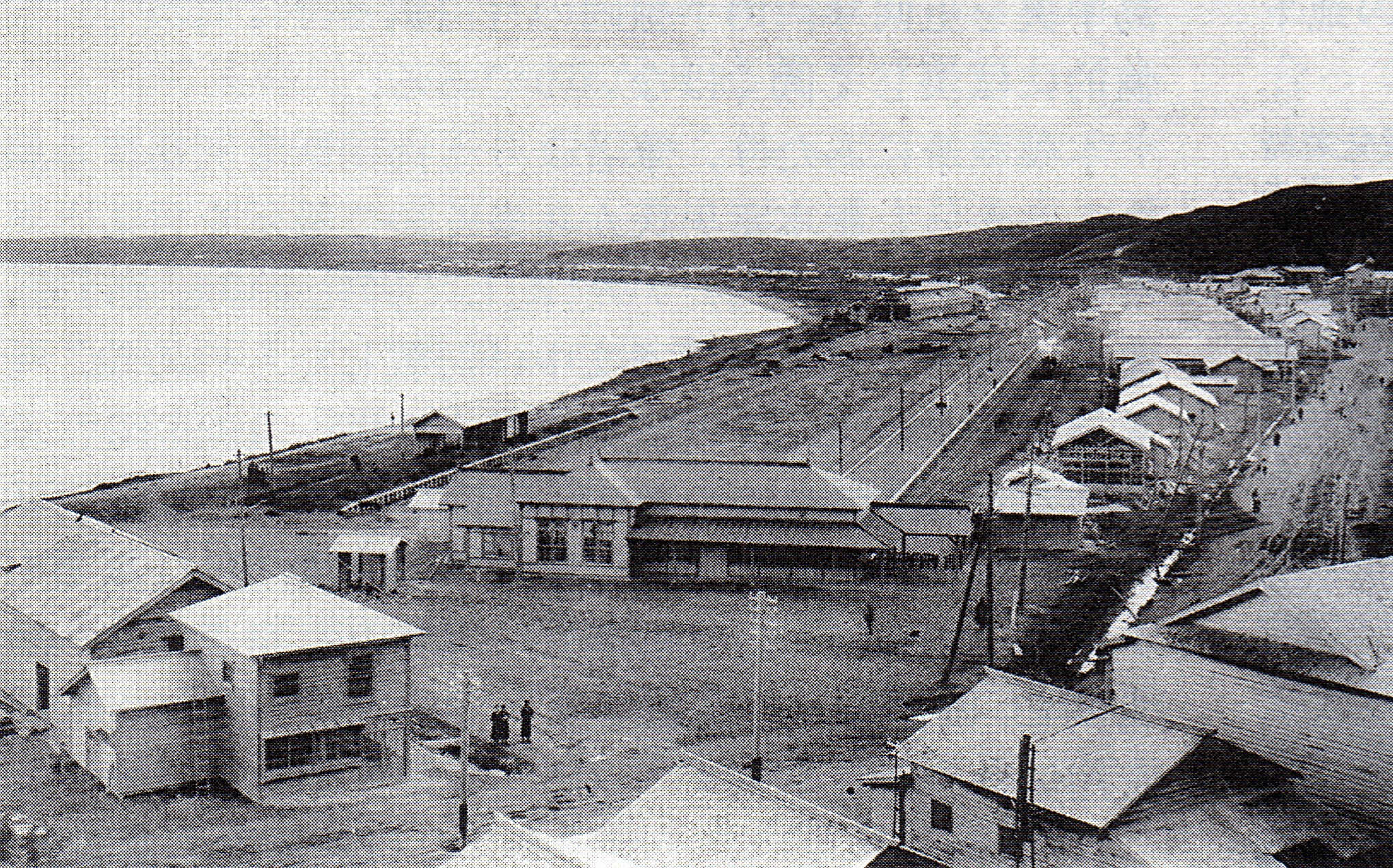 First Wakkanai station (later renamed to Minami-Wakkanai station in 1941 and moved to current position in 1952) under construction.